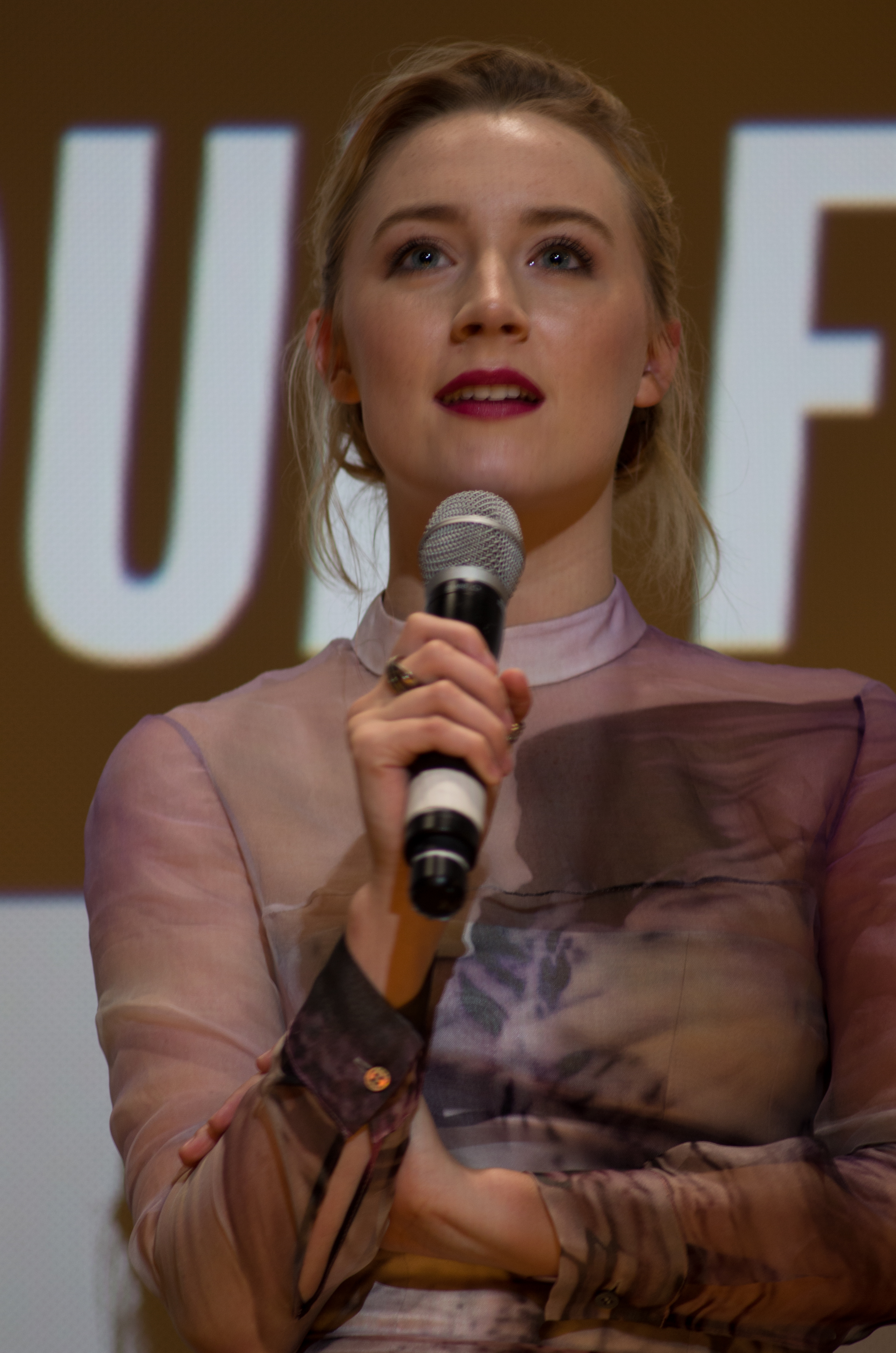 Saoirse Ronan at a public speaking engagement